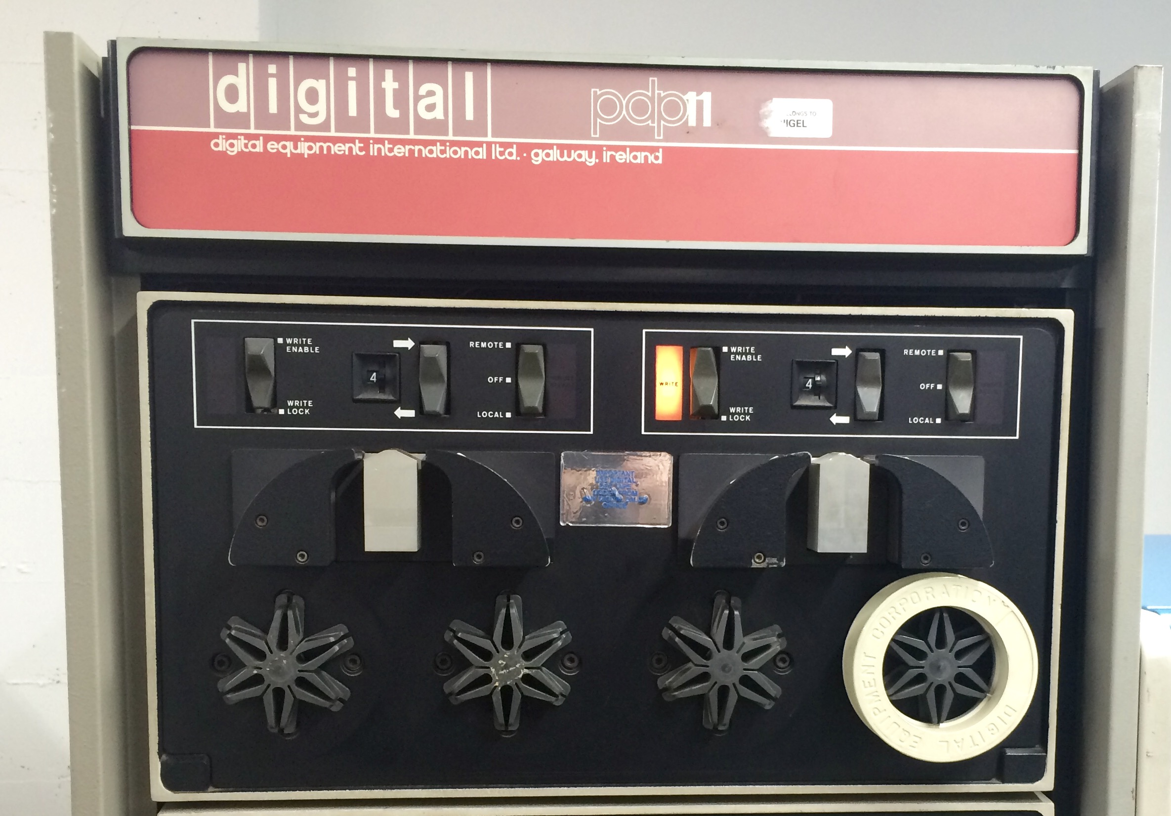 A DECtape unit made for the DEC PDP-11, as seen at the Living Computer Museum in Seattle, WA.